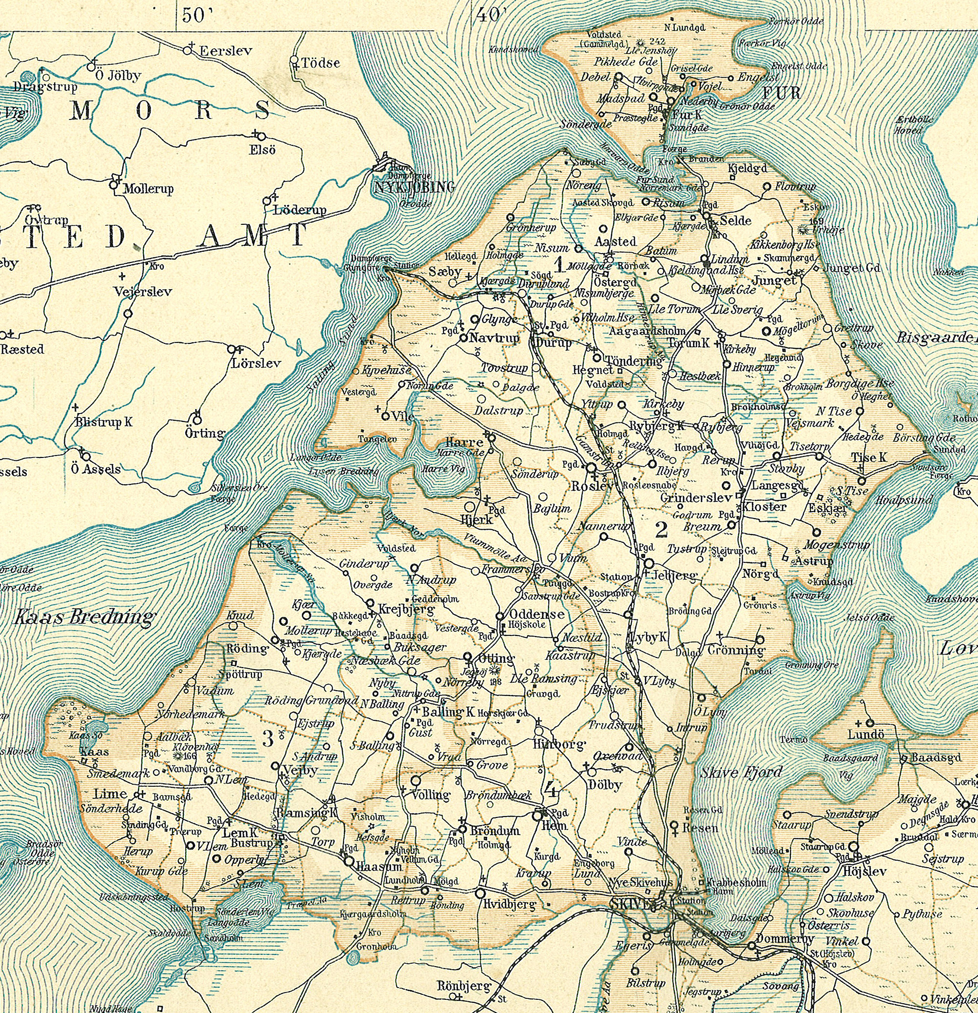 Map of Salling in the northwestern part of Viborg County in Denmark